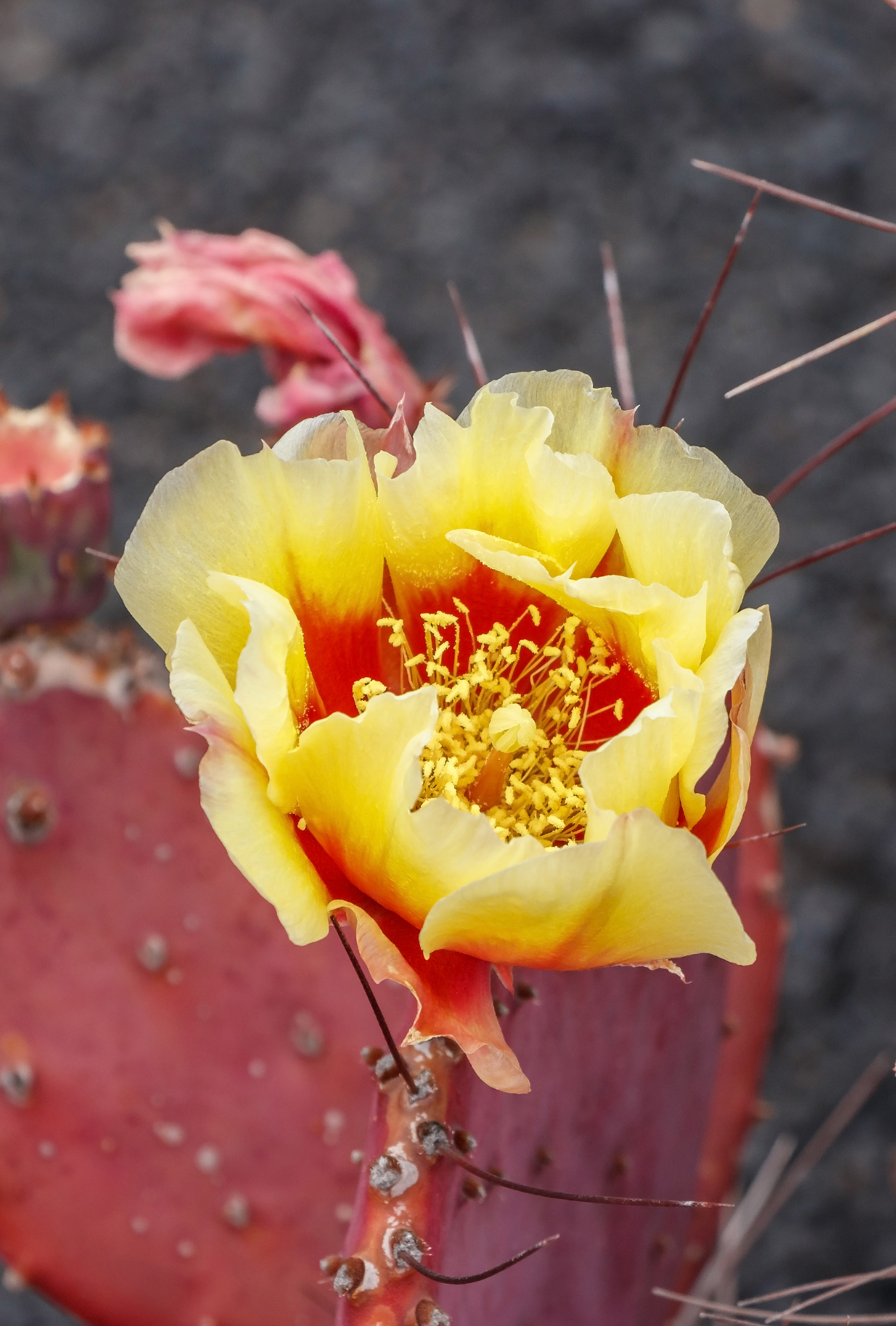 Opuntia macrocentra Engelm., Black-Spined Prickly Pear; Flower; Jardin de Cactus, Guatiza, Lanzarote, Canary Islands, Spain.